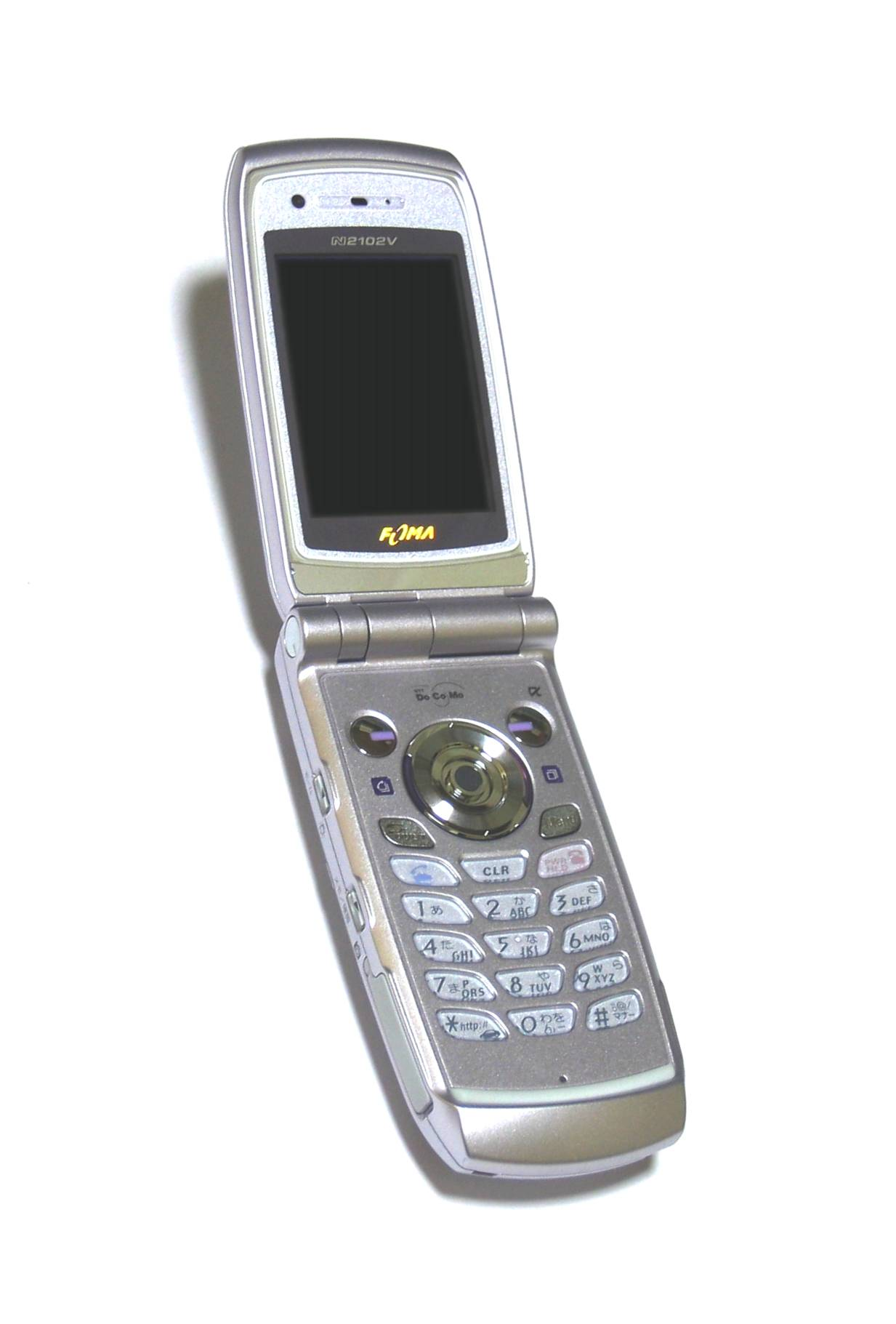 NTT DoCoMo FOMA N2102V is a mobile phone.